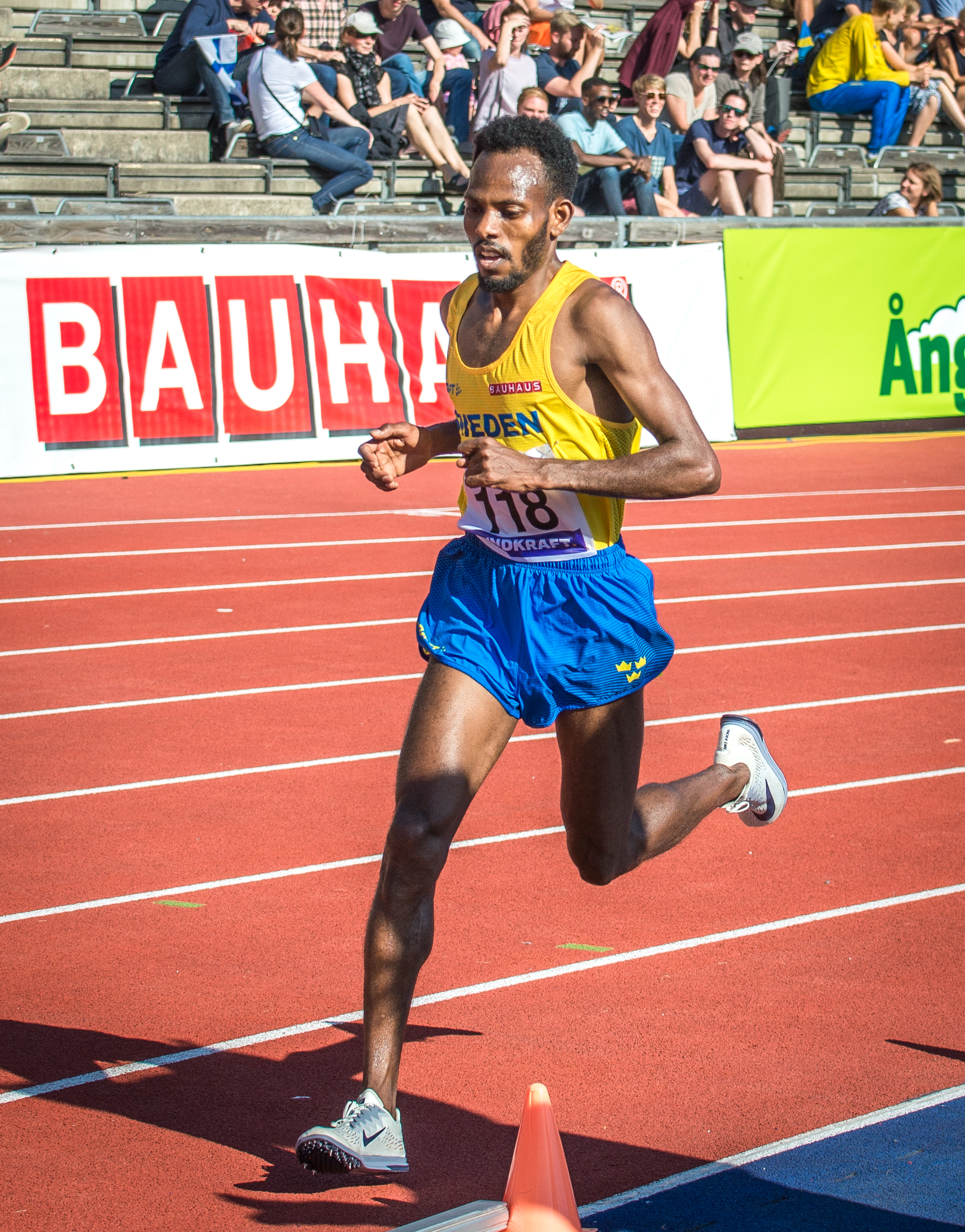 Robert Fsiha during the Finland-Sweden athletics international 2019 at the Stockholm Stadium in August 2019.